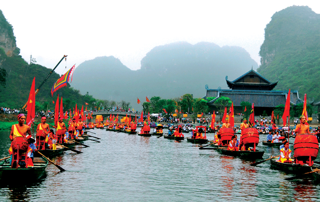 Tran Ninh Binh Temple Festival in Trang An worships Quy Minh in the south of Hoa Lu town